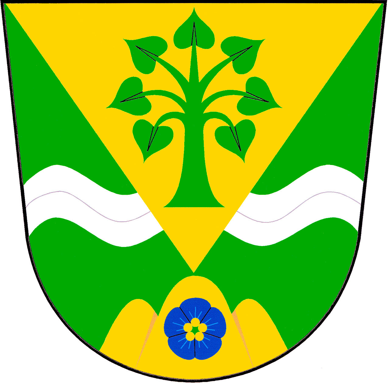 Municipal coat of arms of Janův Důl village, Liberec District, Czech Republic.